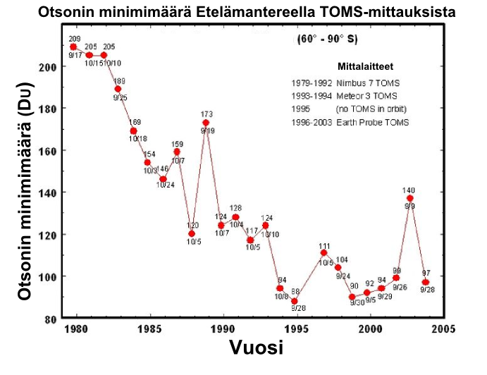 Minimum ozone layer thicknes at Antarctica with Finnish titles, see Image:Min ozone.jpg